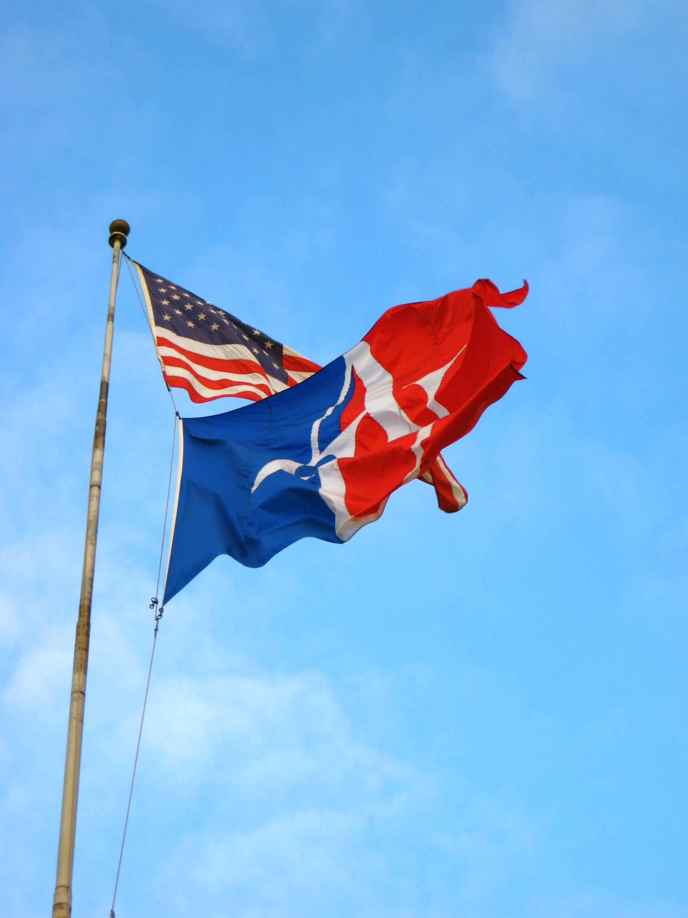 I took this photo of the American University flag flying under the flag of the United States on November 10th, 2007.